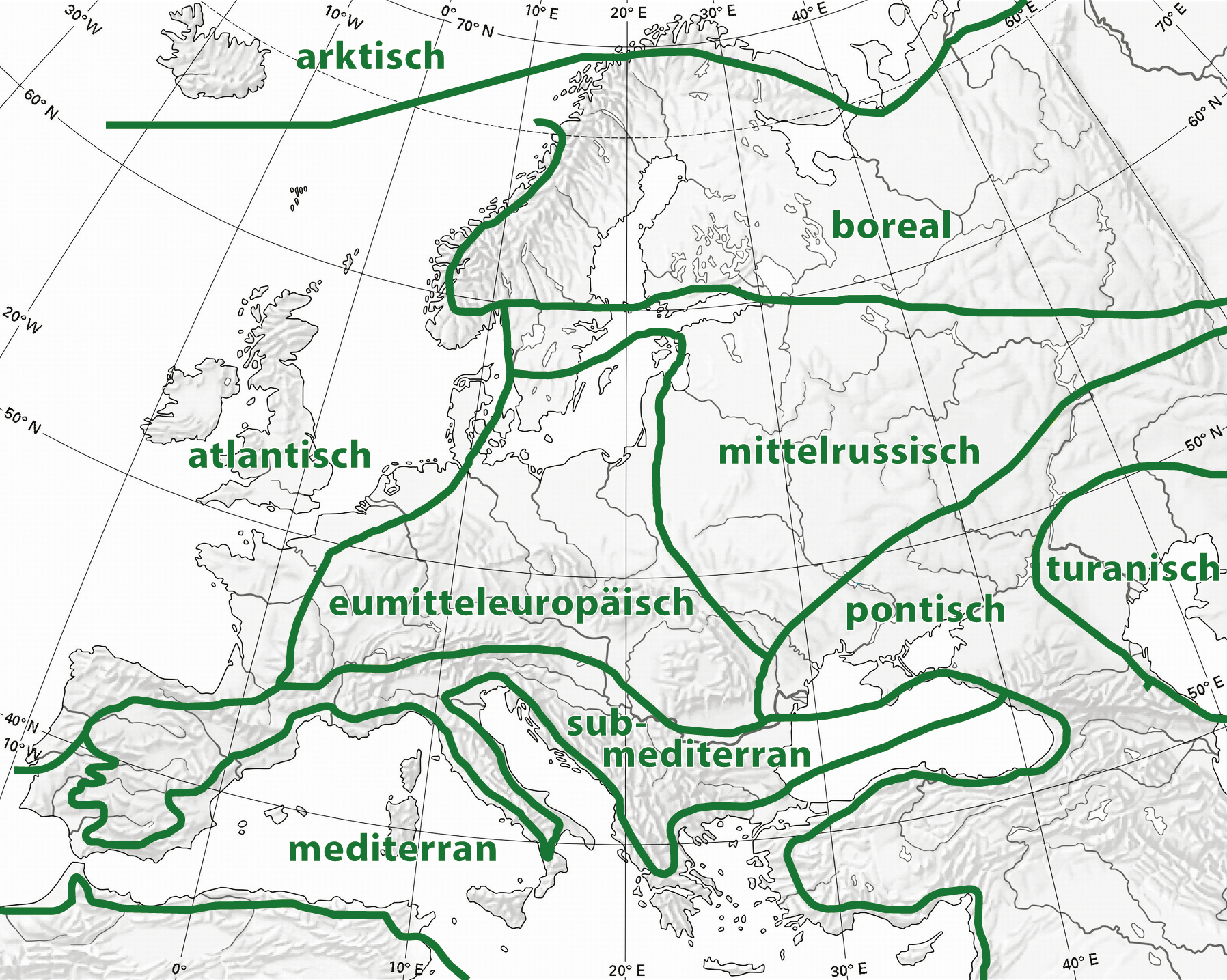 Floristic regions in Europe and western Siberia, according to Wolfgang Frey and Rainer Lösch The central european region and the central russian region are sister regions. The border between them is similar to the Fagus sylvatica limit (January, day-time temperature average: above -2°C). The border between the central russian region and the boreal region is similar to the Quercus spp. limit (Day-time temperature average: above 10°C, 4 months per year). The border between the boreal region and the arctic region is similar to the tree line, taiga/ arctic tundra limit (July, day-time temperature average: above 10°C). The border of the atlantic region is the limit of no frost (average), Gulf Stream influence. The warm islands in the Atlantic ocean are in the macaronesia region: isolated populations in a more humid environment. The mediterranean region is similar to the occurrence of wild Olea europea and wild Cistus salviifolius (Olea europea is grown very North in Italy). The border between the submediterranean region and the central european region is similar to the alpine arc (upper Rhone, upper Rhine, lower Danube), a weather barrier. The pontic region border is similar to the tree line/ steppe limit (less than 450 mm precipitation per year). The turanian region has a semi-arid climate. References: Frey W, Lösch R (2004) Lehrbuch der Geobotanik. Elsevier, Spektrum; München, Heidelberg; ISBN 3-8274-1193-9 (graphic modified from Walter H (1954) Grundlagen der Pflanzenverbreitung. Einführung in die Pflanzengeographie, II. Teil: Arealkunde. Ulmer, Stuttgart-Ludwigsburg) Frey W, Lösch R (2010) Geobotanik: Pflanzen und Vegetation in Raum und Zeit. 3 ed, Spektrum, Heidelberg, ISBN 978-3-8274-2335-1